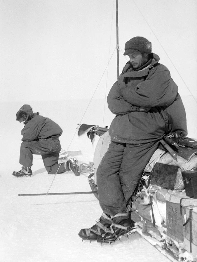 Douglas Mawson rests on the sledge, at Aladdin's Cave on the outward journey of the Far Eastern party, during the Australasian Antarctic Expedition.